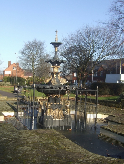 Queen Victoria's Fountain Unveiled in 1891 this was the first public fountain in Bloxwich. Cast by Geo Smith, Sun Foundry, Glasgow